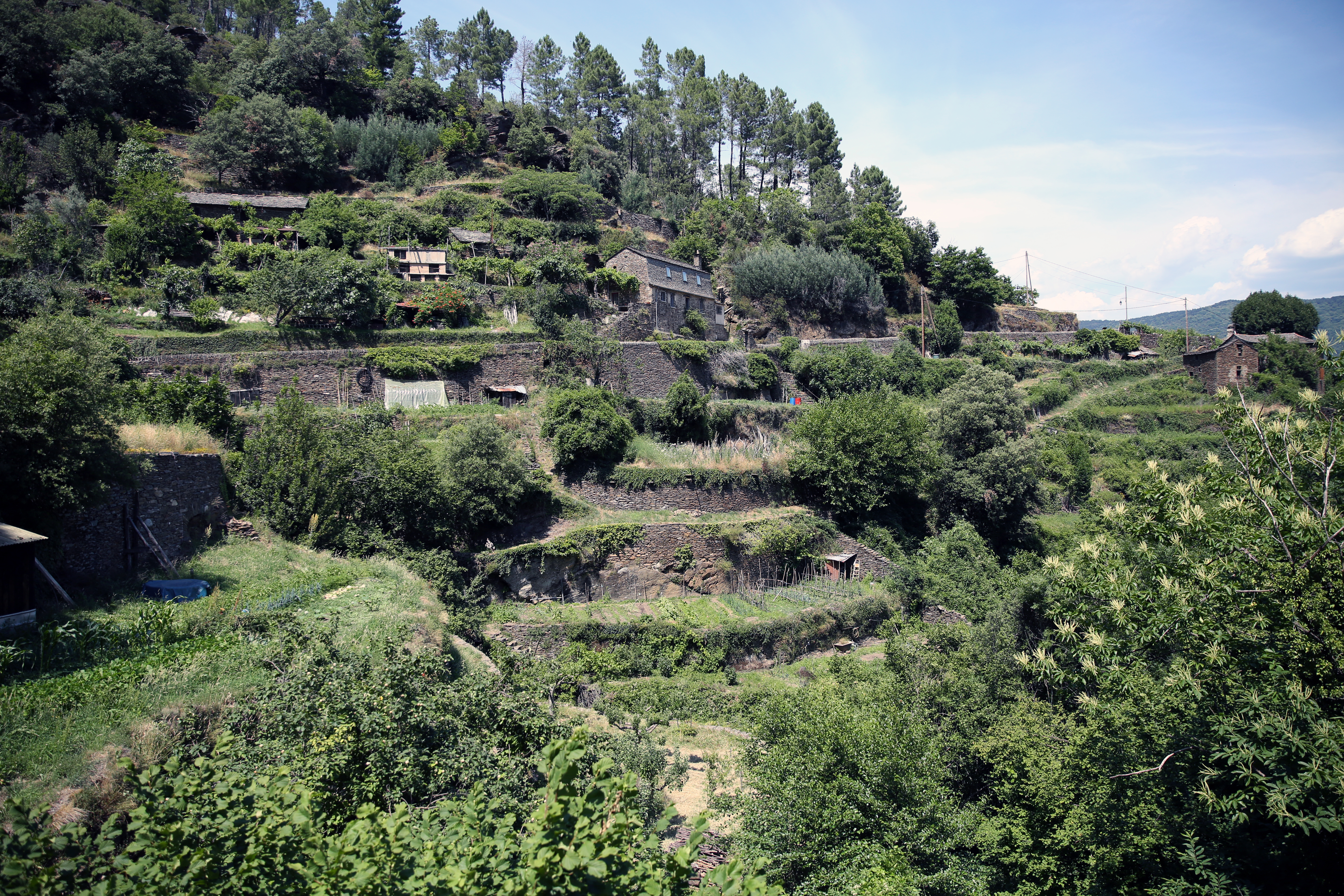 Terraces crops and gardening above the small town Saint-Germain-de-Calberte.